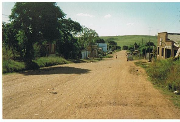 Side-road (Calle J.F. Kennedy)